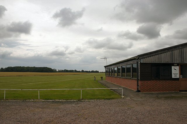 Crowfield Airfield A private grass airstrip, part of Home Farm, Coddenham Green. The terminal building is in the foreground.